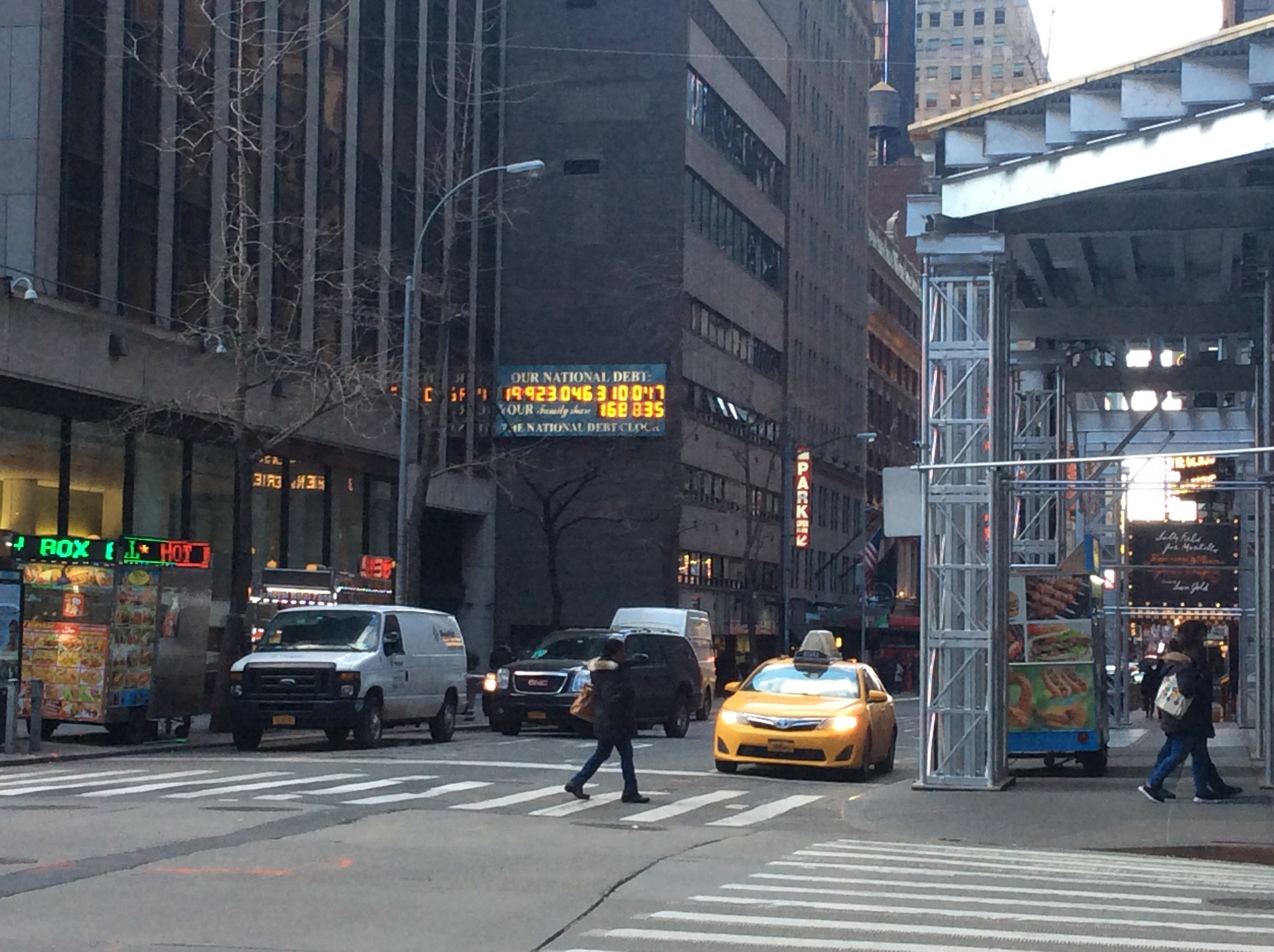 6 Av and 44 St in Manhattan, closer up photo showing National Debt Clock, February 2017